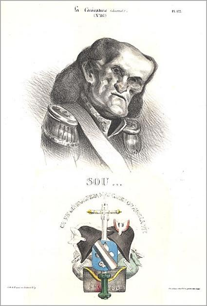 Nicolas Jean de Dieu Soult Hand-colored lithograph Published in La Caricature 10"w x 14"h